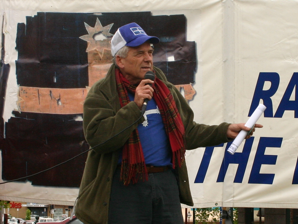 Graeme Dunstan accepting his Eureka Australia Day medal at Bakery Hill, Ballarat, on December 3, 2005 "for his itinerant social activism for some 40 years and his creative contribution to the commemoration of Eureka, including making it more relevant to current political issues on civil liberties and rights."